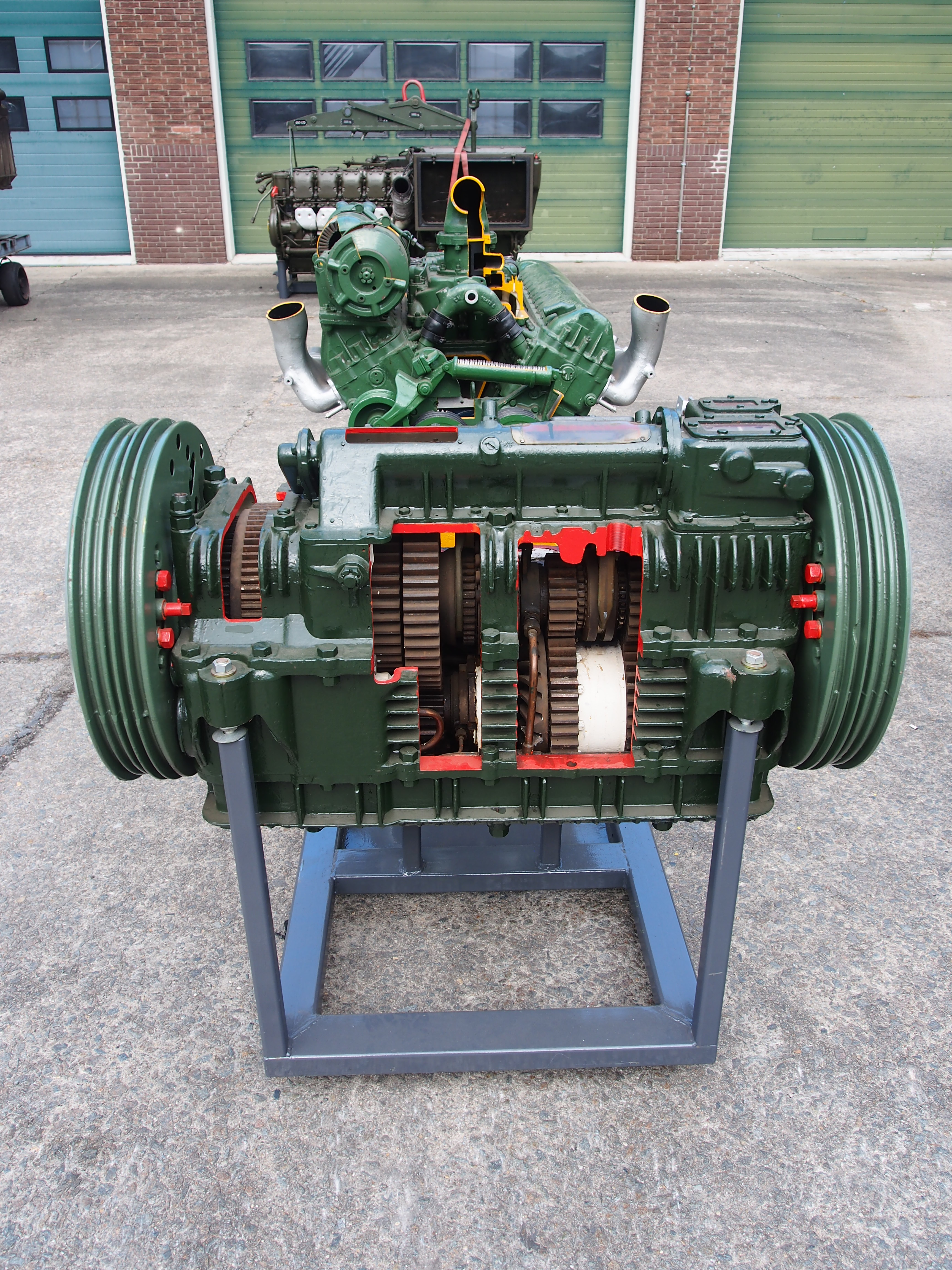 Dutch Cavalry Museum, Bernhardkazerne, Amersfoort, The Netherlands.